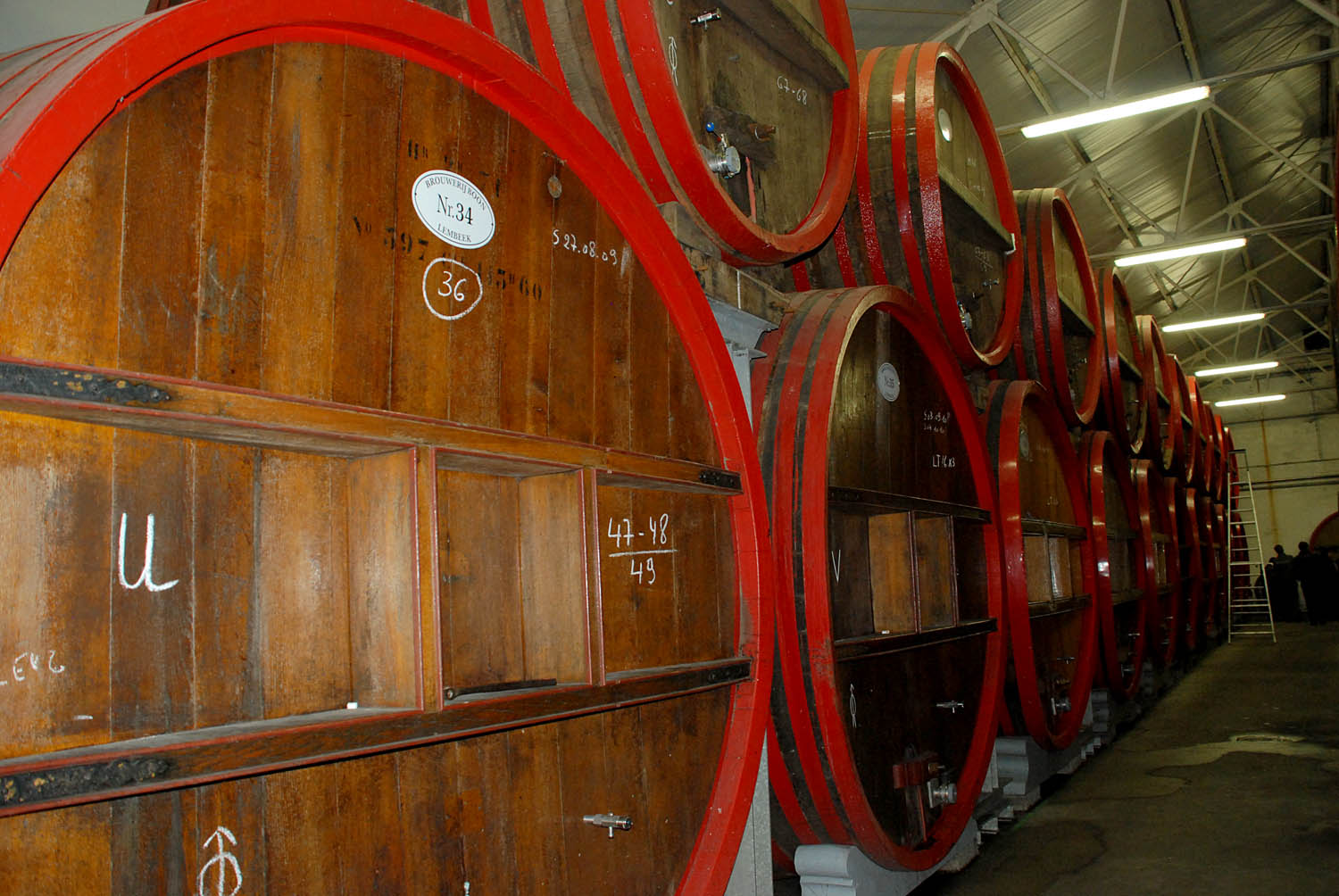 Brewery Boon, Belgium